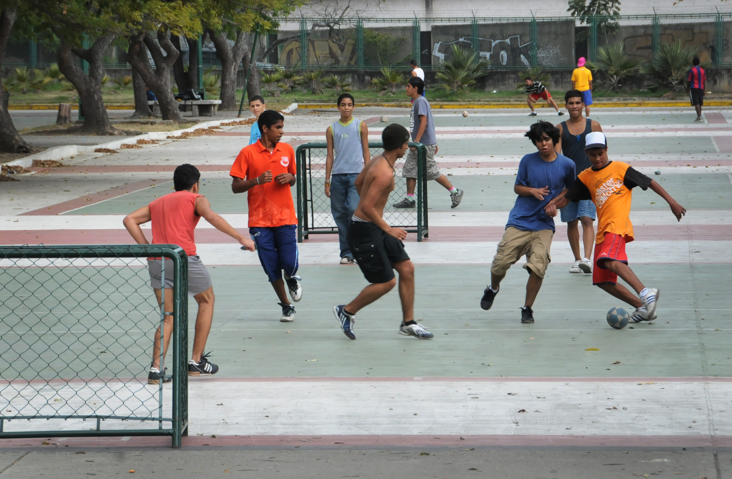 Street football in Caracas, Venezuela